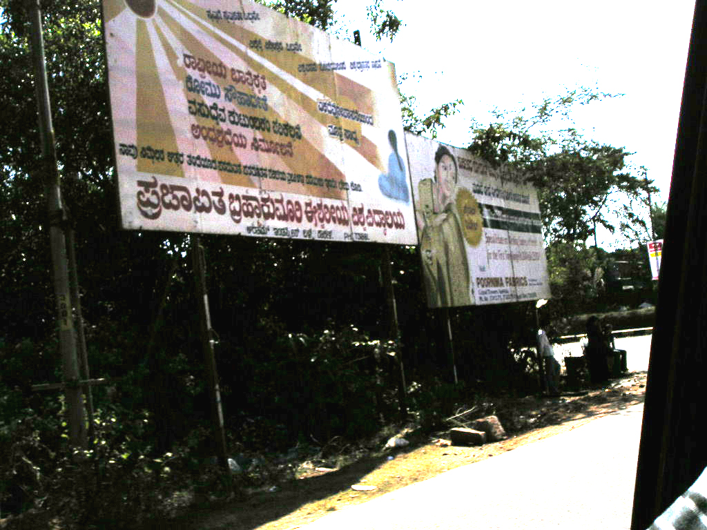 Kannada billboards in India displaying information on Prajapita Bramhakumari Eshwariya University. The advertisement just contains what they teach in the University and is not creative enough to attract any copyright.ಕನ್ನಡ: ಪ್ರಜಾಪಿತ ಬ್ರಹ್ಮಕುಮಾರಿ ಈಶ್ವರೀಯ ವಿಶ್ವವಿದ್ಯಾಲಯದ ಜಾಹಿರಾತು ಫಲಕ